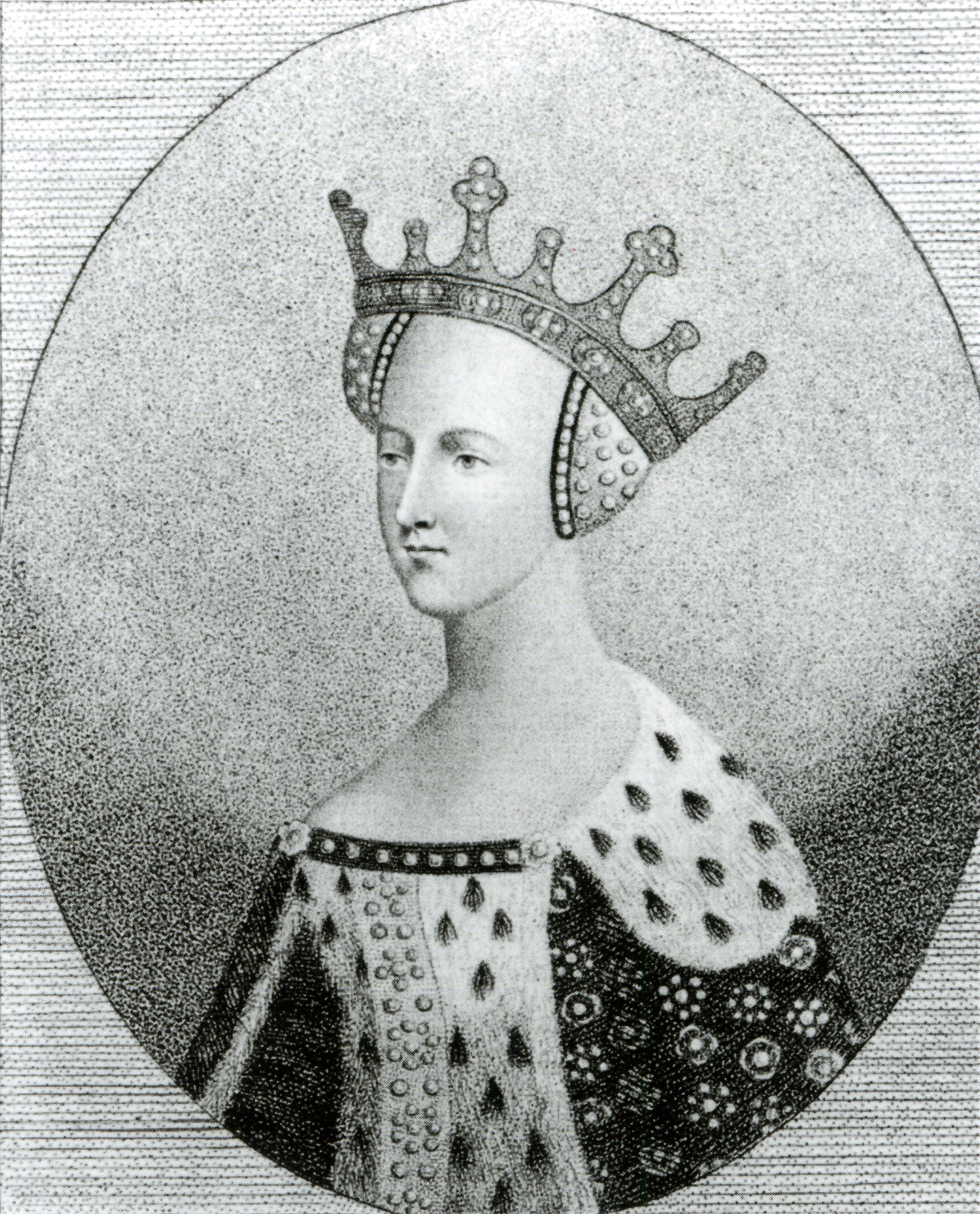 This image is a JPEG version of the original PNG image at File: Catherine of France.png. Generally, this JPEG version should be used when displaying the file from Commons, in order to reduce the file size of thumbnail images. However, any edits to the image should be based on the original PNG version in order to prevent generation loss, and both versions should be updated. Do not make edits based on this version. See here for more information. Catherine of France, 1401-37. Unknown engraver, 18th century. Engraving, 19 x 14cm (7 1/2 x 5 1/2"). National Portrait Gallery (RN27247). National Portrait Gallery: NPG D9396 While Commons policy accepts the use of this media, one or more third parties have made copyright claims against Wikimedia Commons in relation to the work from which this is sourced or a purely mechanical reproduction thereof. This may be due to recognition of the "sweat of the brow" doctrine, allowing works to be eligible for protection through skill and labour, and not purely by originality as is the case in the United States (where this website is hosted). These claims may or may not be valid in all jurisdictions. As such, use of this image in the jurisdiction of the claimant or other countries may be regarded as copyright infringement. Please see Commons:When to use the PD-Art tag for more information.See User:Dcoetzee/NPG legal threat for original threat and National Portrait Gallery and Wikimedia Foundation copyright dispute for more information. This tag does not indicate the copyright status of the attached work. A normal copyright tag is still required. See Commons:Licensing.